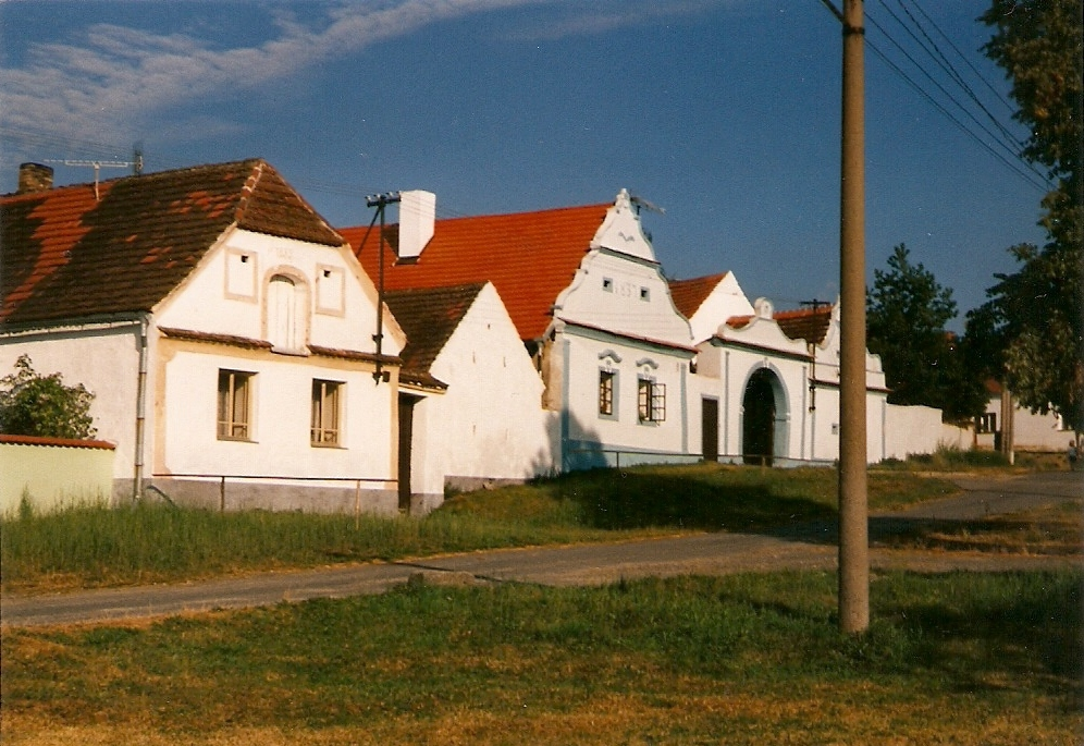 Skály-Budičovice village in Písek district, Czech Republic. Homesteads in the "country baroque" style.